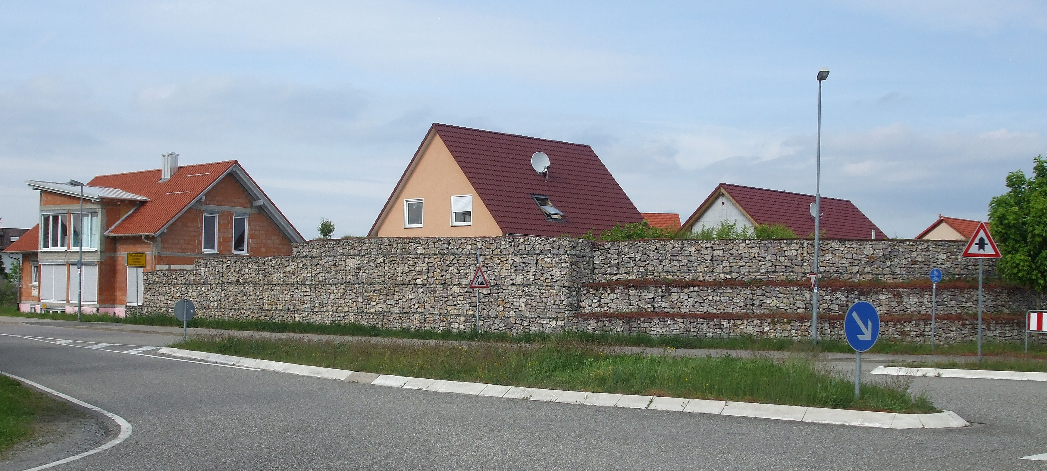 Gabion -silencer